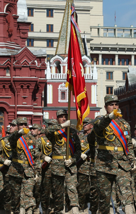 Armenian troops in Victory parade in 2015